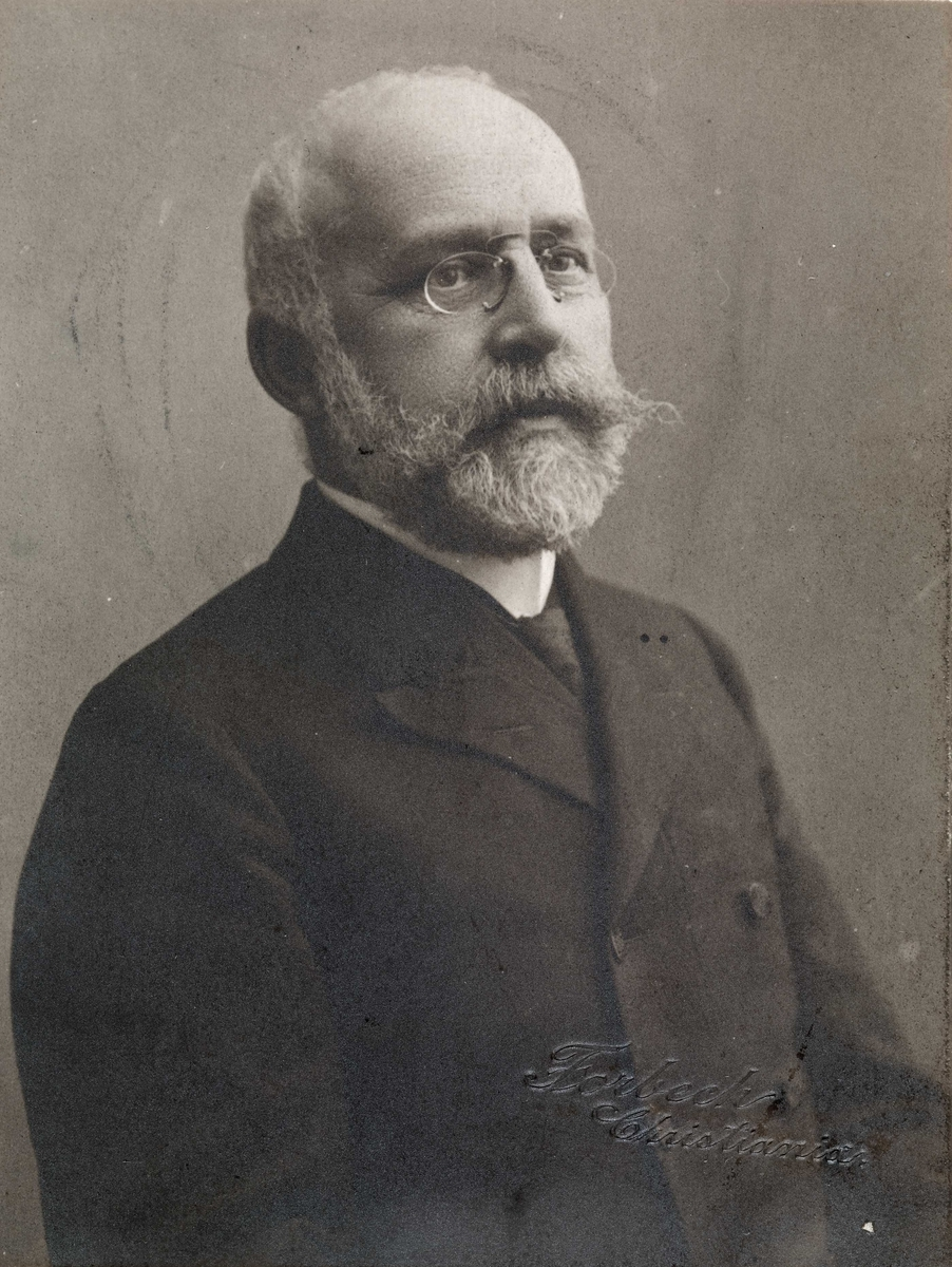 Norwegian diplomat, financier and patron Axel Heiberg (1848–1932), pictured in the 1910s